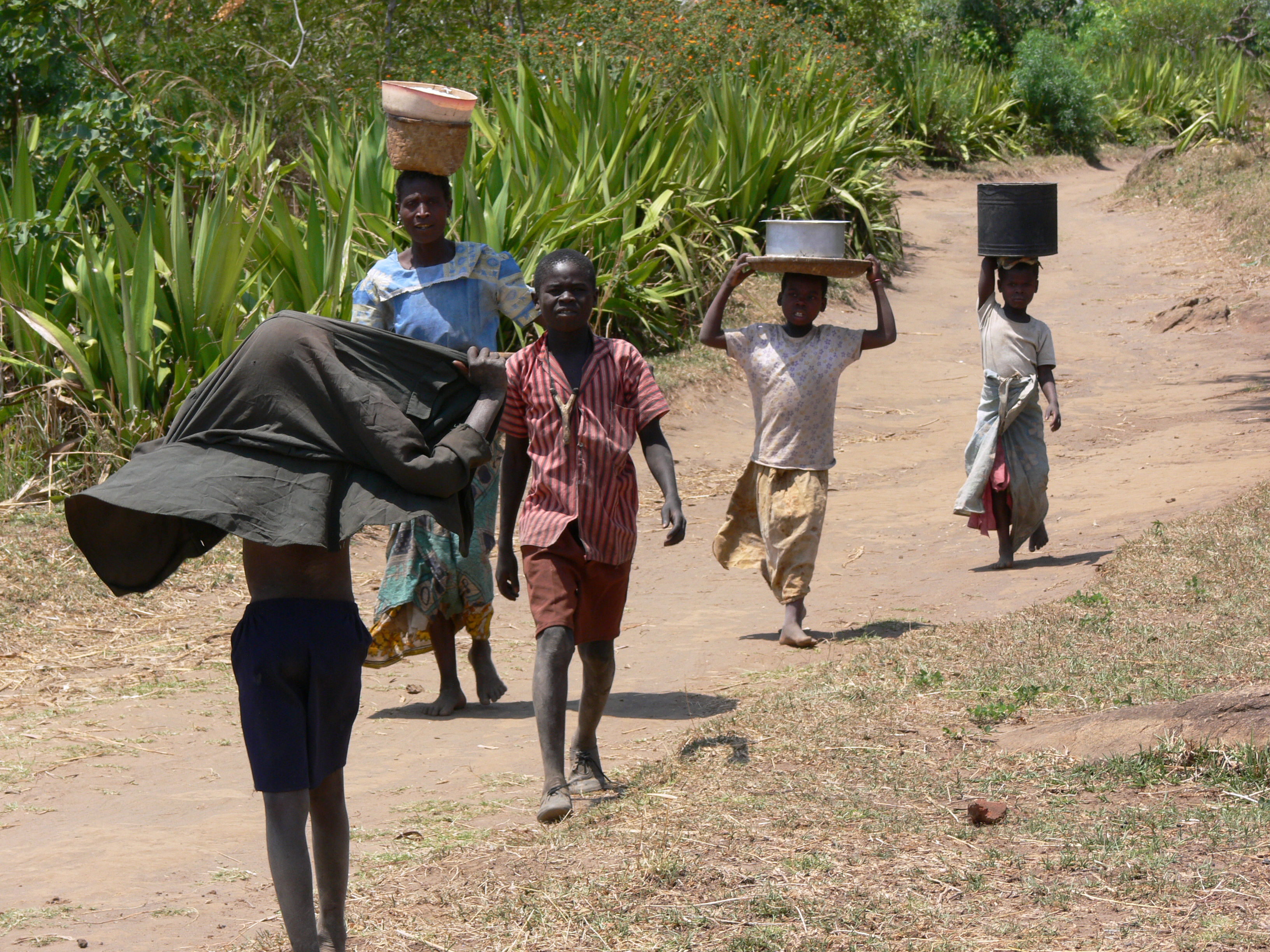 Children hauling water in Malawi